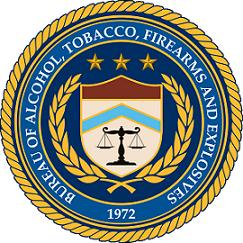 ATF official logo